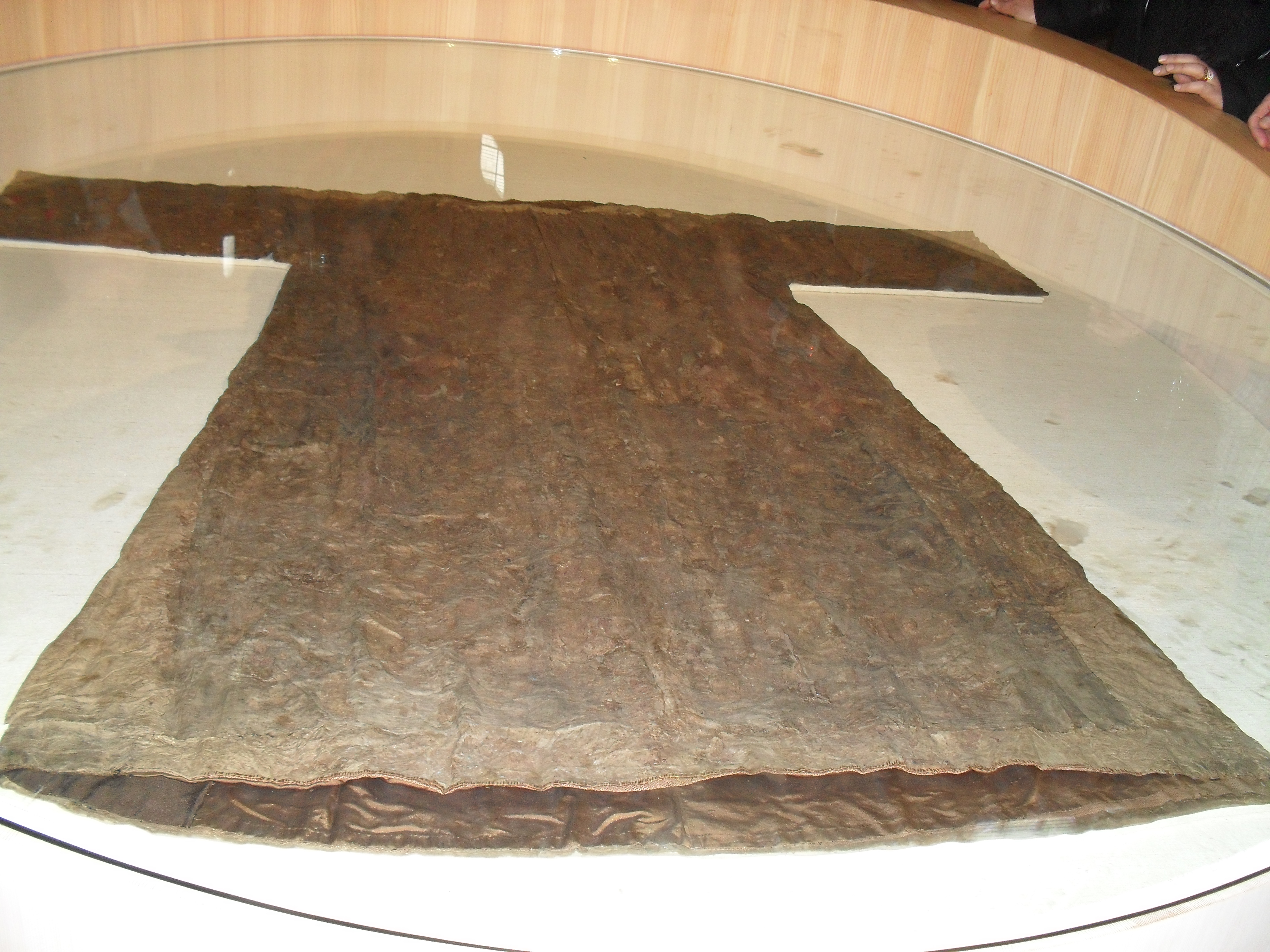 The Holy Tunic of Jesus Christ in Trier, Germany